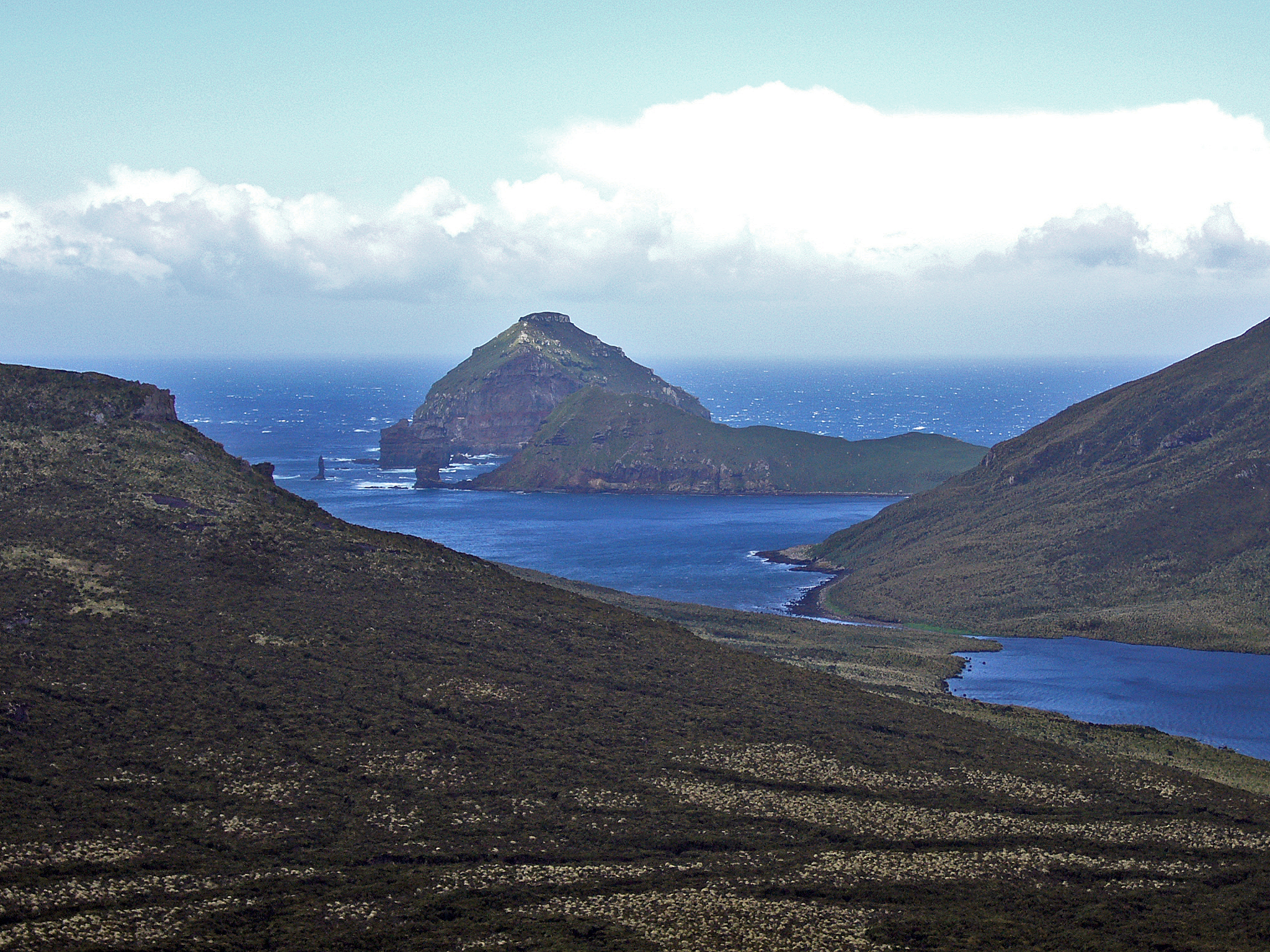 Jaquemart Island, high in the distance - view from Campbell Island, New Zealand.